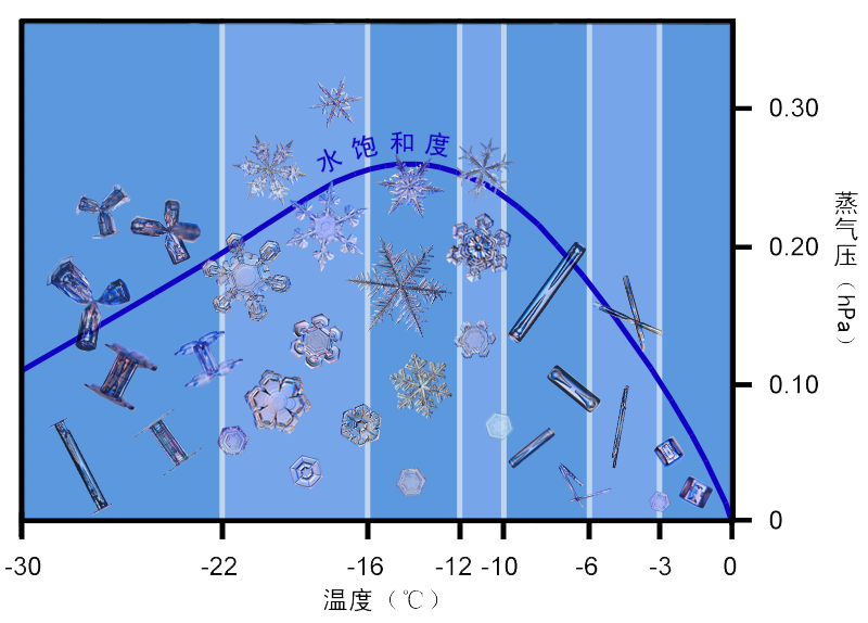 favoured crystal habits according to temperature and the level of supersaturation